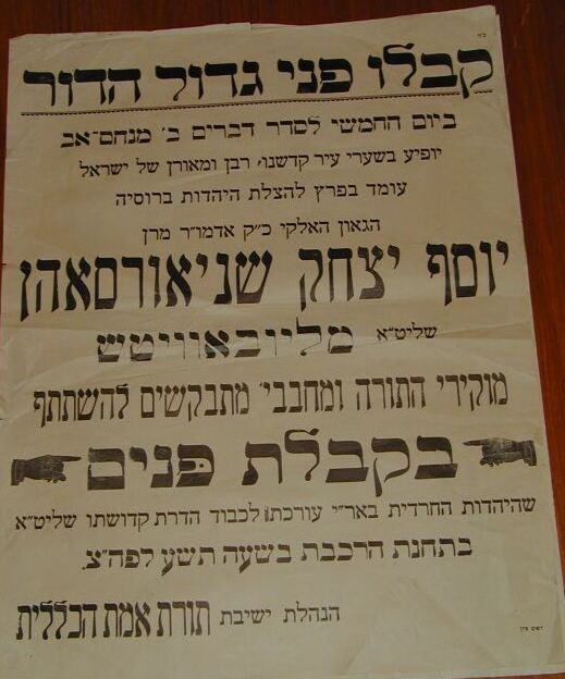 poster of coming of the Rayatz to Eretz Israel